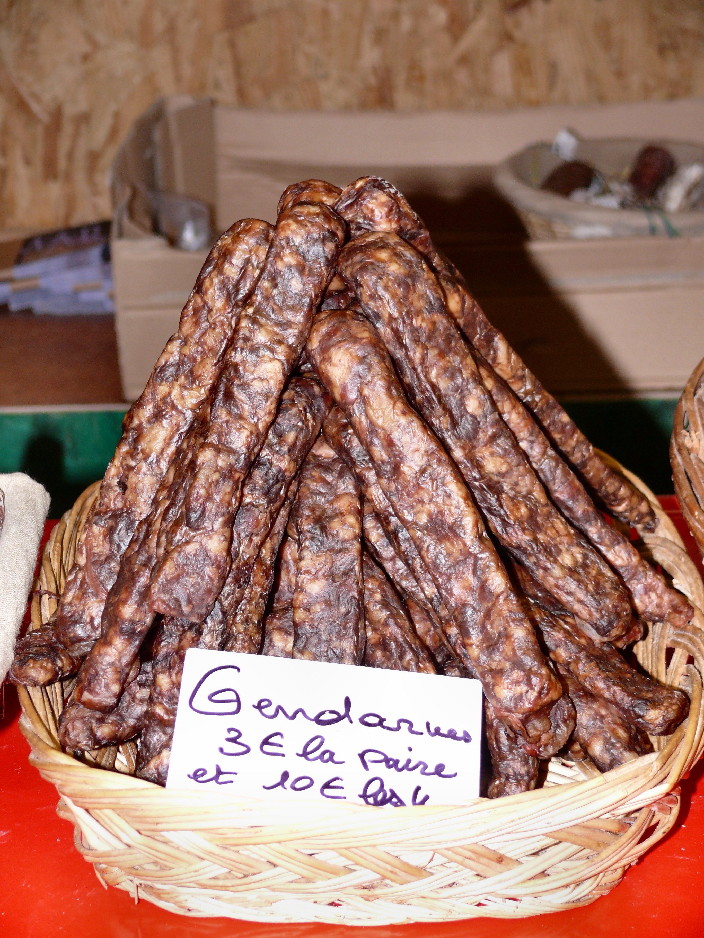 When I want to know wether some food is good or bad, I do have a personal method: the "hurgh" test. I just show it to my wife, then, if she says "hurgh it's fat", then, is the test positive and can be sure it is very good and I'll love it all :-) The Gendarme ("Policeman" in english), is a traditional Alsacian smoked saussage made with beef and pork. The test had a very good positive predictive value. Taken in a Christmas market at Colmar, Haut-Rhin, Alsace, France, December 2008